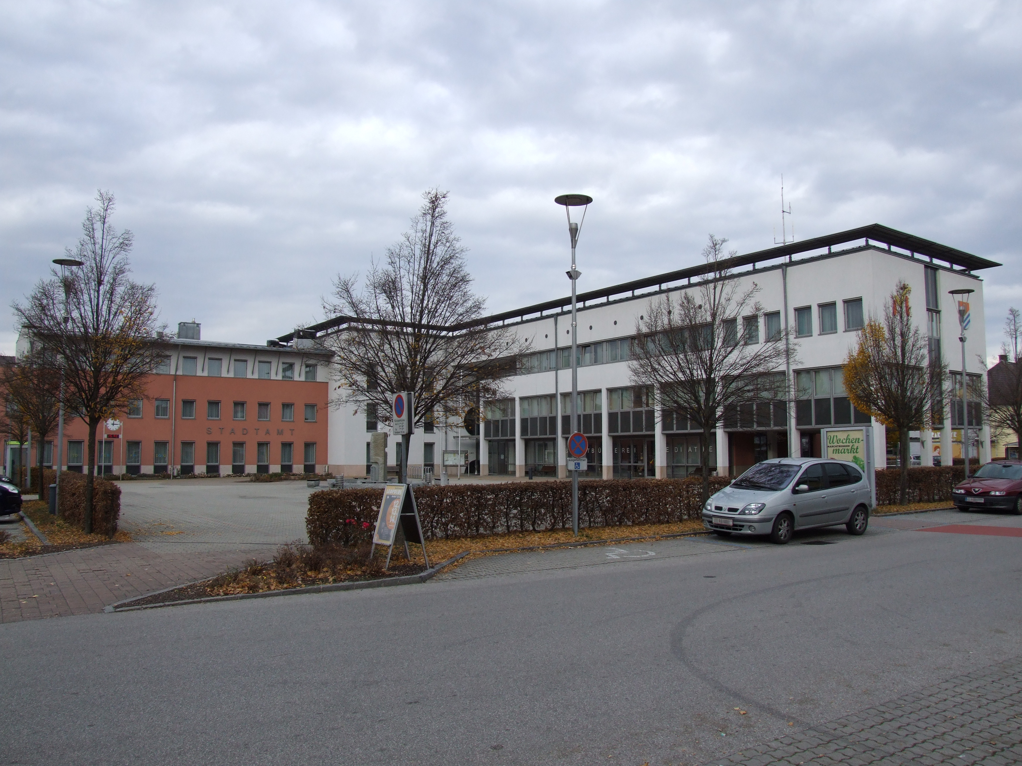 City Square and town hall of Marchtrenk